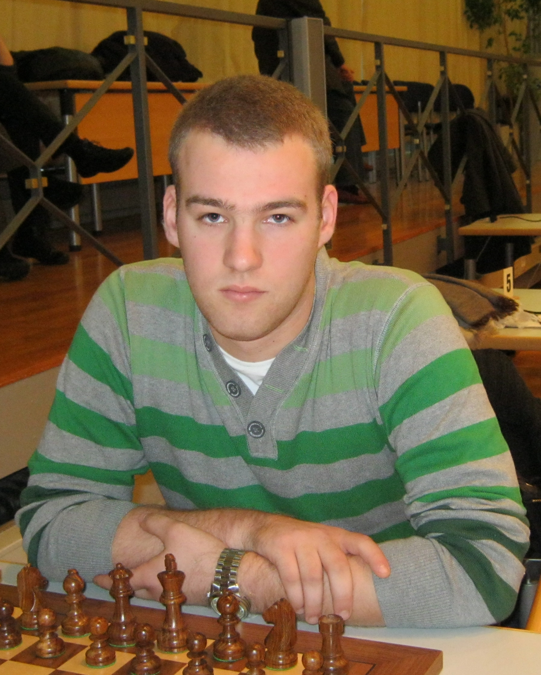 Robert Ris, chess player from the Netherlands